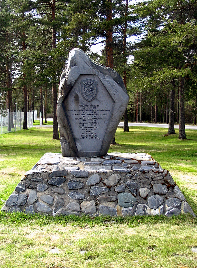 The memorial of Pohja Brigade (Pohjan Prikaati) in Hiukkavaara, Oulu, Finland.